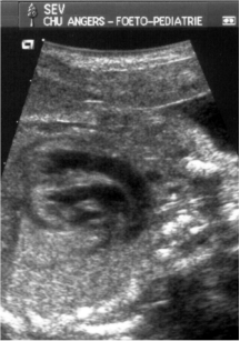 TGV - Echo foetal hros vaisseaux